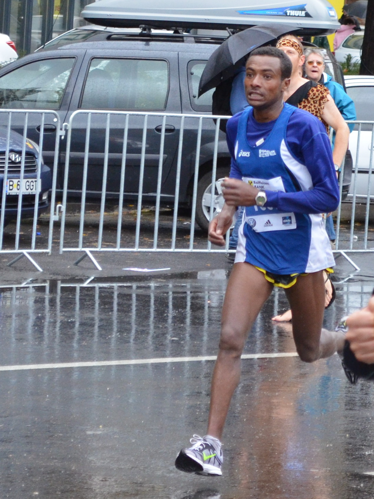 Tekla Metafeira Getu, Kenya, 1st place, Marathon, Men